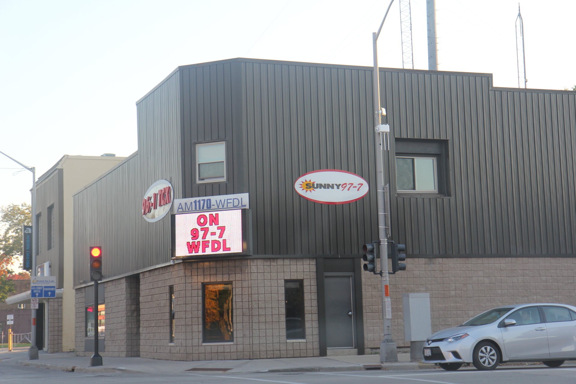 The radio station WFDL and WTCX in downtown Fond du Lac, Wisconsin.